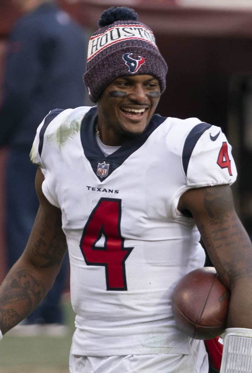 Deshaun Watson of the Houston Texans after a game against the Washington Redskins at FedExField on November 18, 2018 in Landover, Maryland.